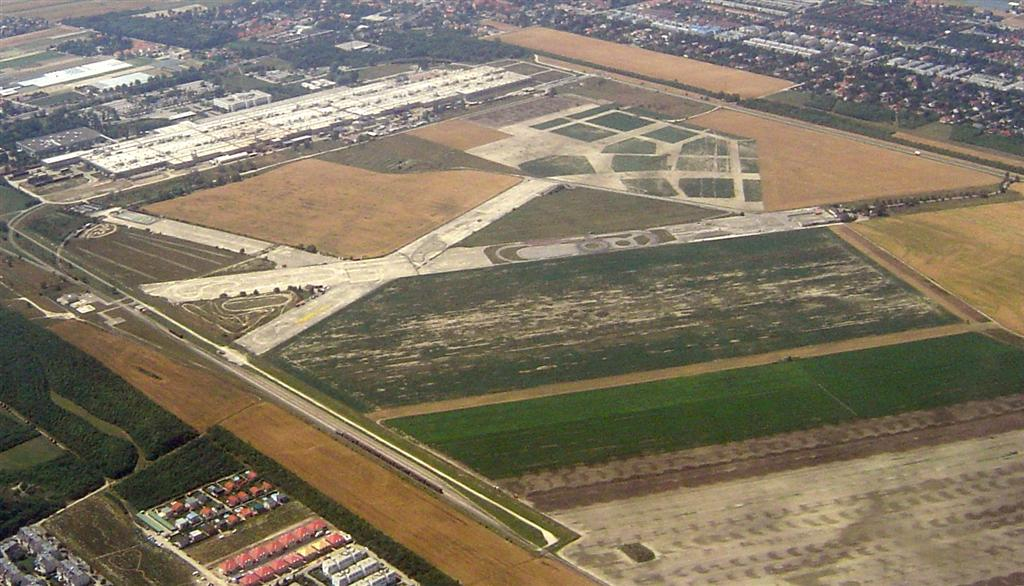 former airfield Aspern, Vienna, Austria